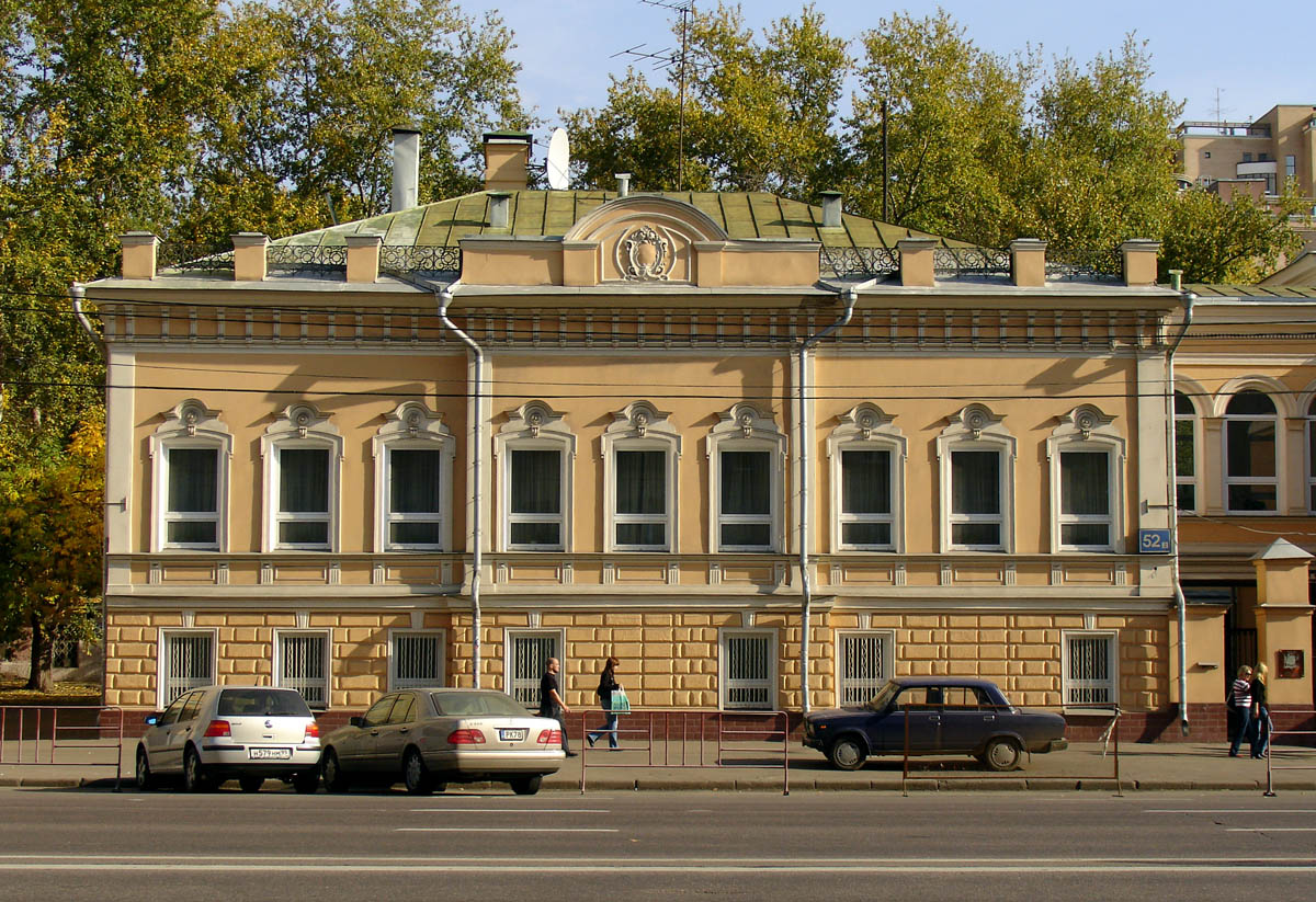 Prospect Mira 52-2, Moscow. Embassy of Zambia